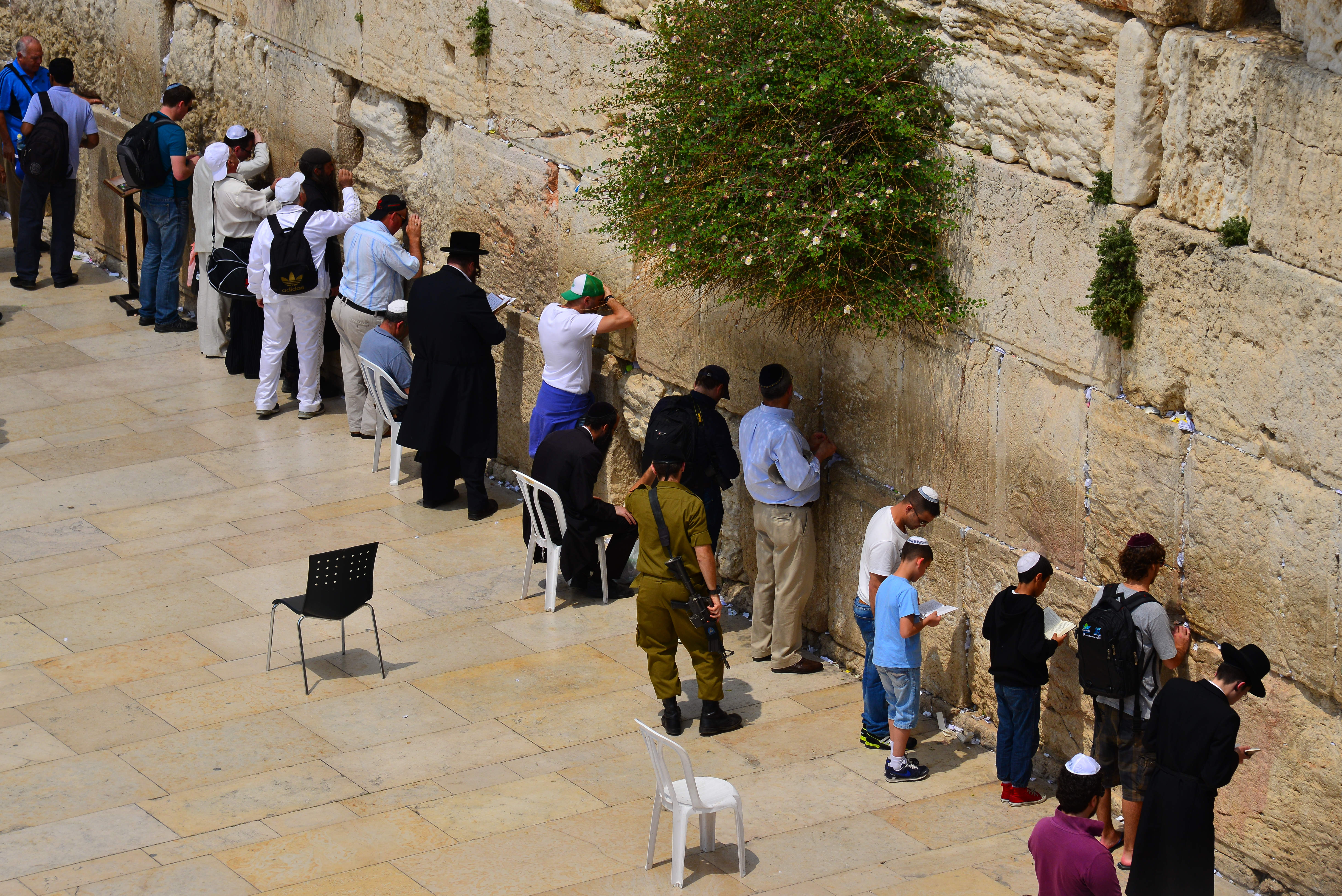 中文（中国大陆）: heritage sites in Israel photo international competition